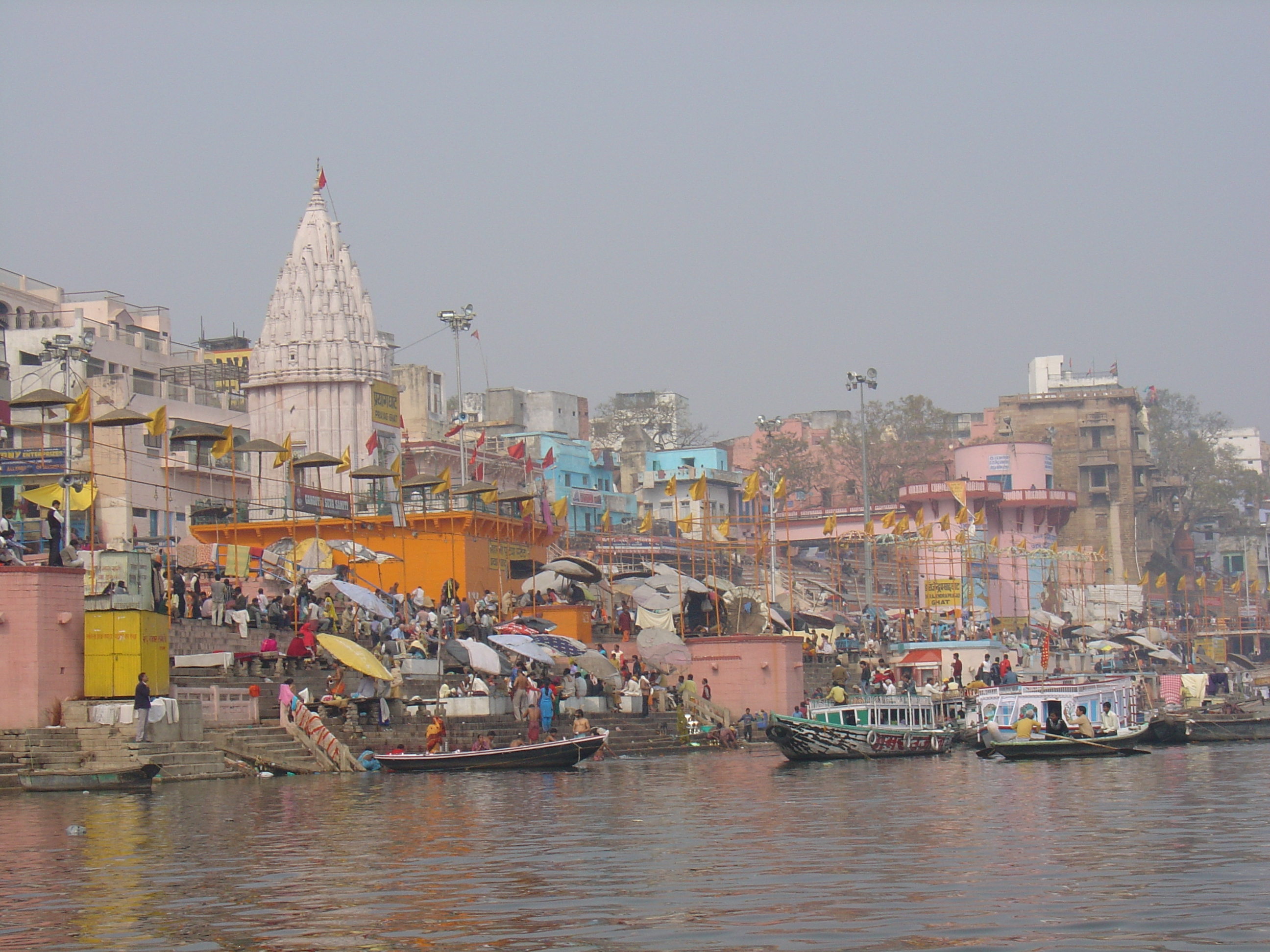 The colorful holy town of Varanarsi. Human cremations, ceremonies, dead cows floating everywhere.